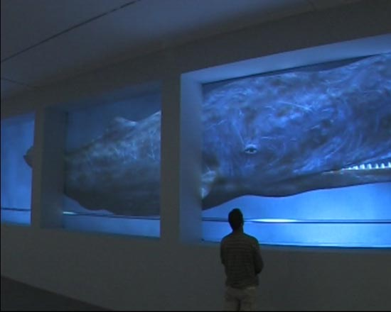 "Wale",installation view, created by Meirav Heiman and Yossi Ben Shoshan, Petach Tikva Museum, Israel (2009), Bass Museum of Art, Miami Beach (2012)